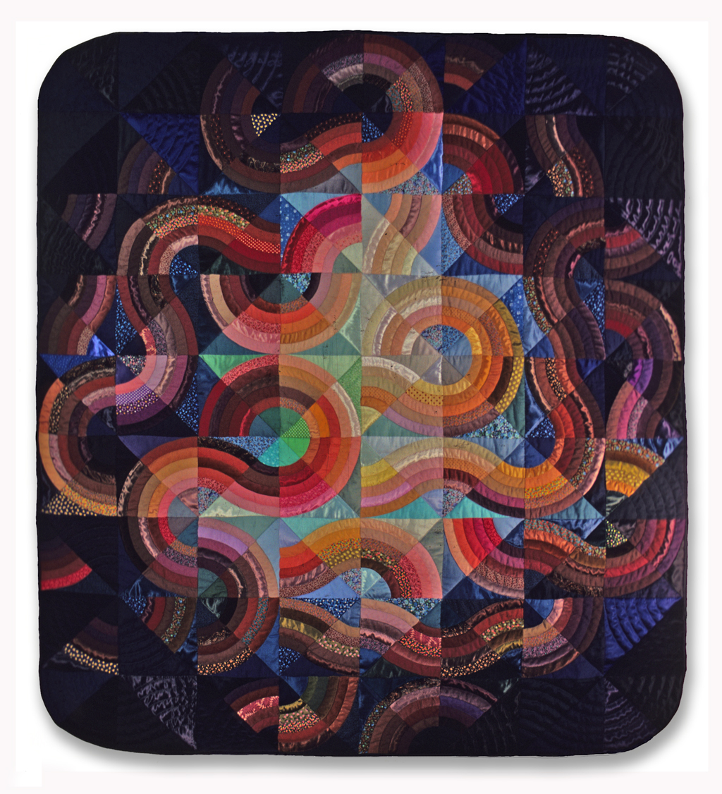 DawnNebula_quilt